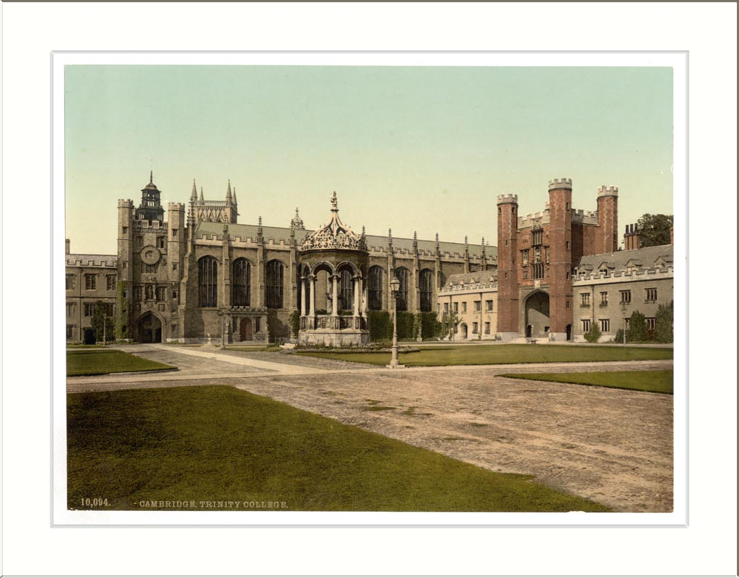 Trinity College Cambridge England